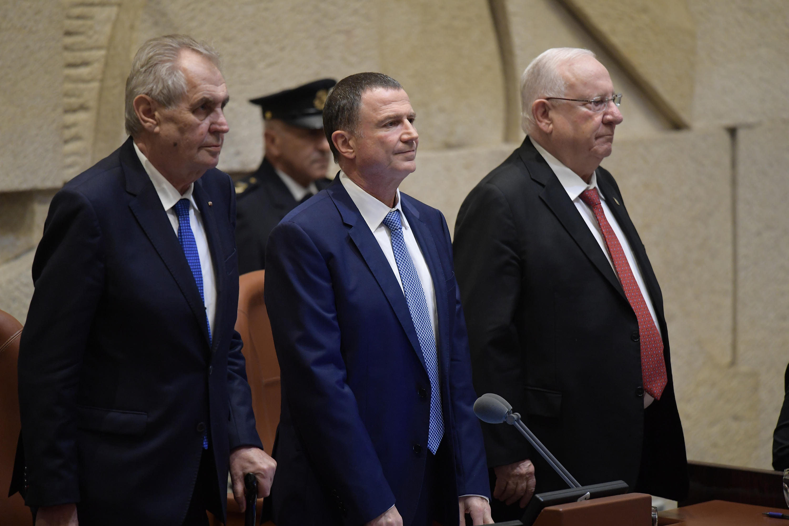 The President of Israel, Reuven Rivlin, with the President of the Czech Republic, Miloš Zeman in the Knesset. Monday, November 26, 2018. Photo credit: Mark Neiman / GPO.